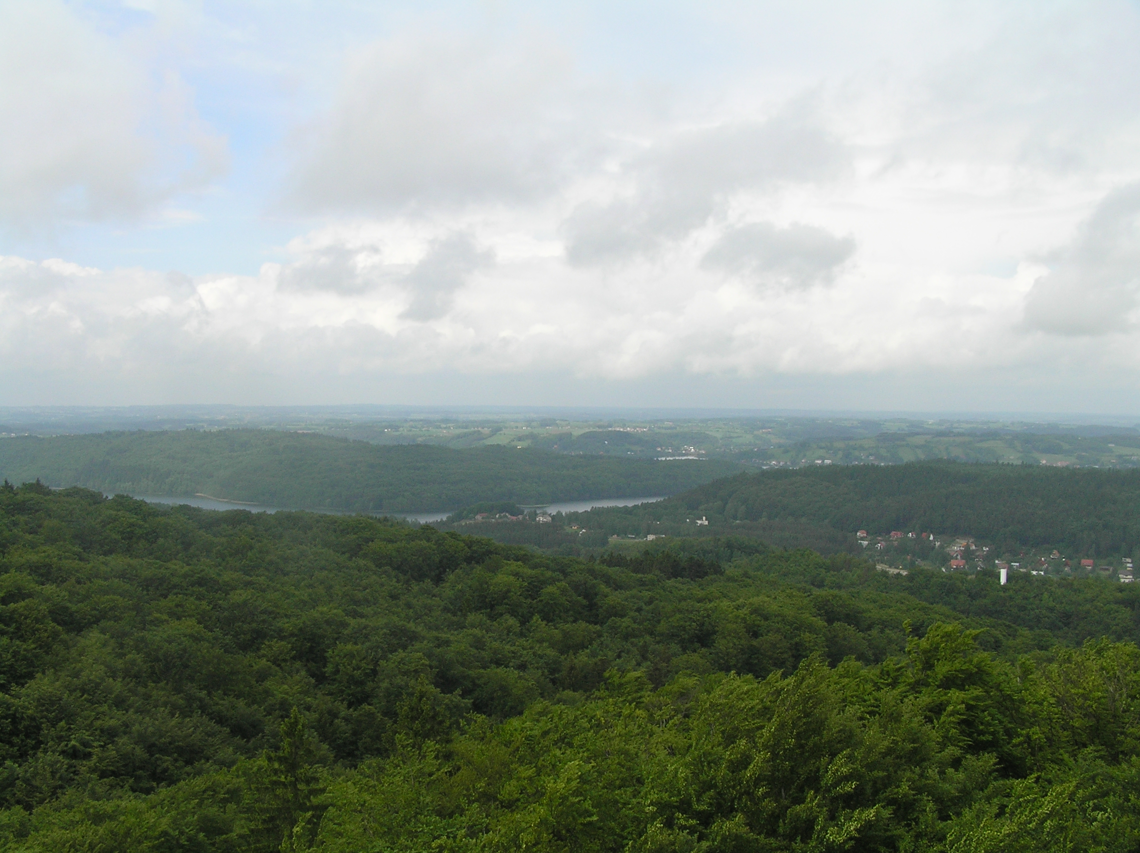 A view from the Wieżyca mountain to Ostrzyckie Lake